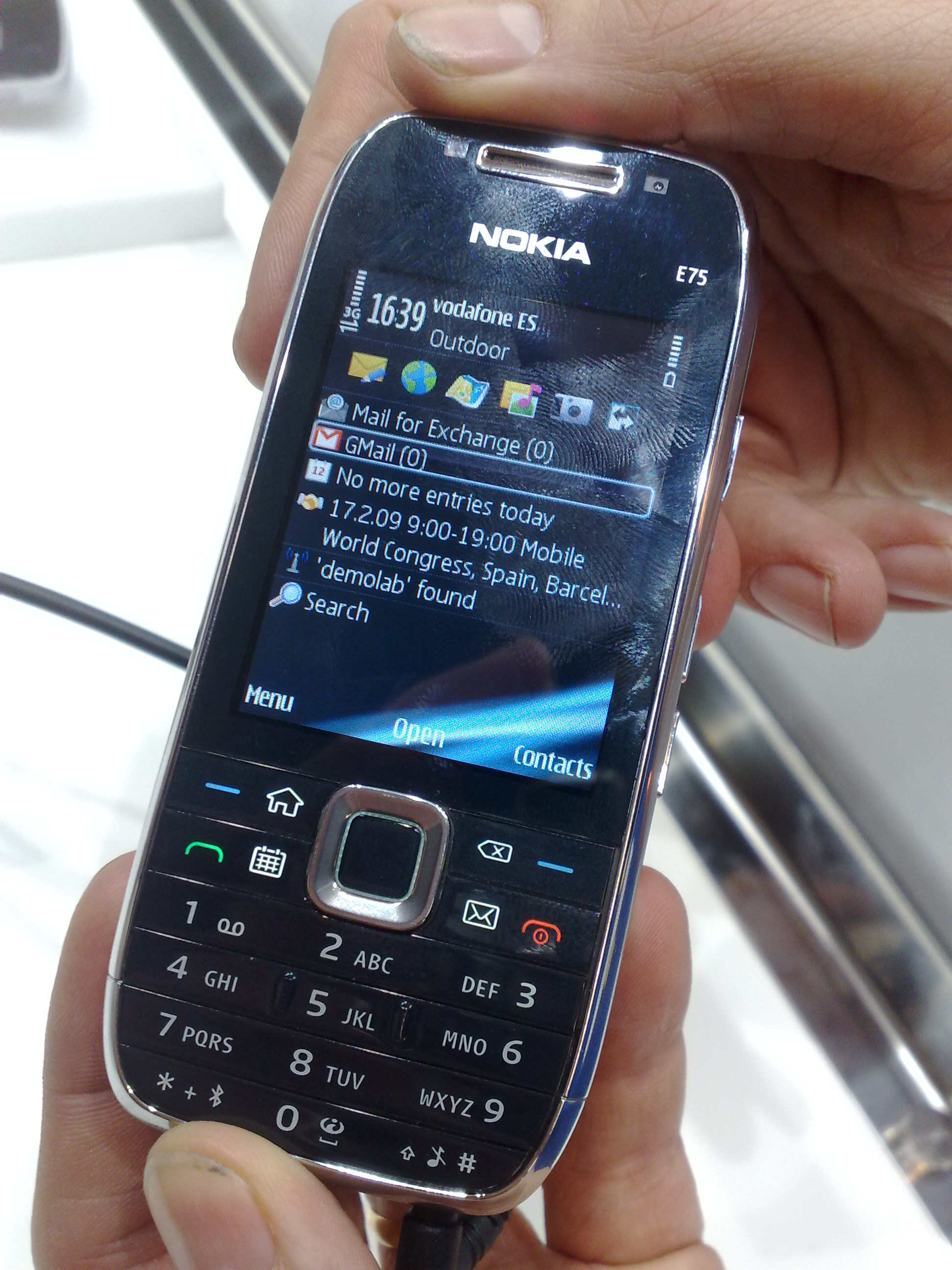 The E75 pretending to be a plain candybar.